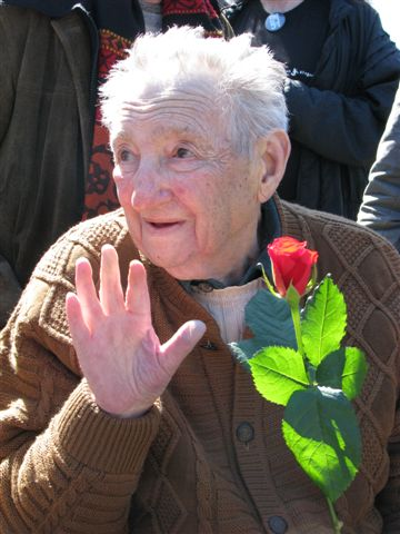 Marek Edelman (1919-2009), Polish medicine doctor